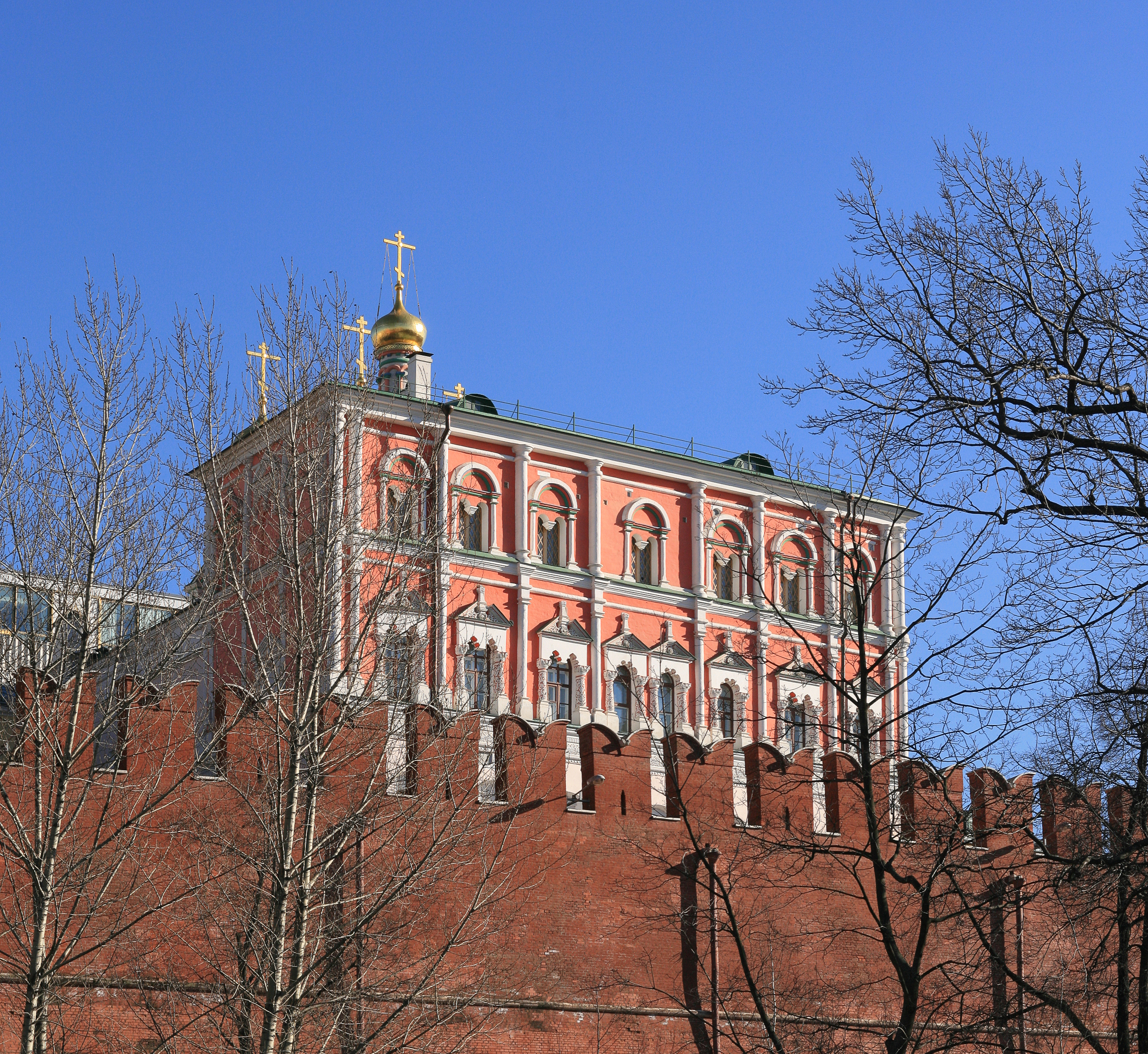 Amusement Palace of Moscow Kremlin